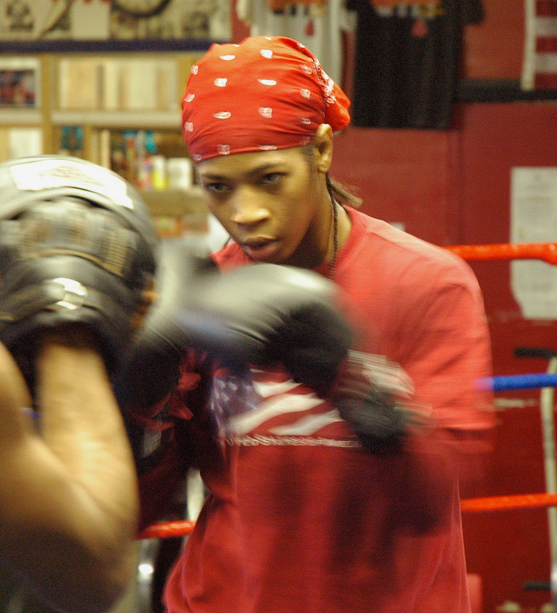 World Champion boxer Alicia Ashley, in training.